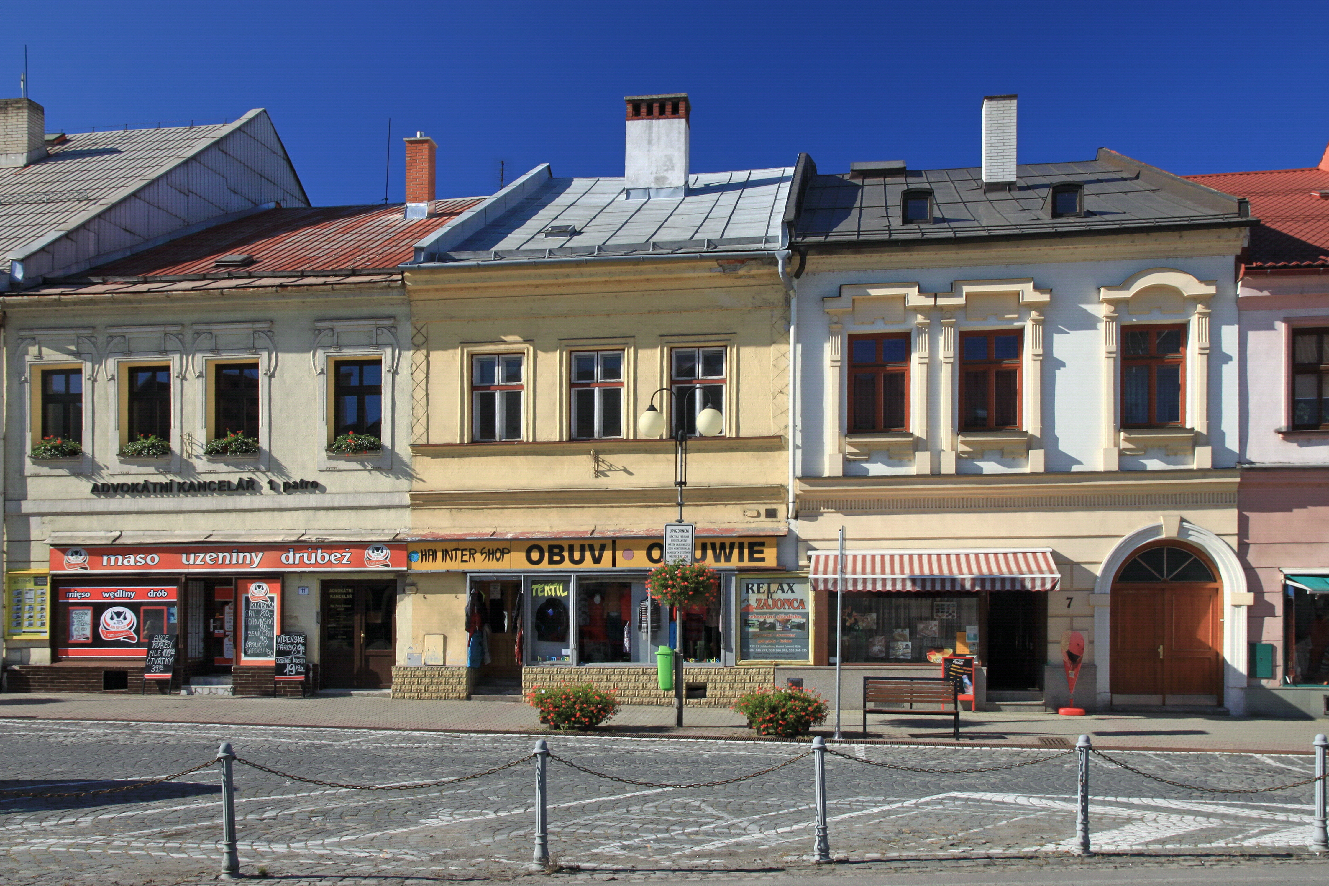 Jablunkov, Mariánské square